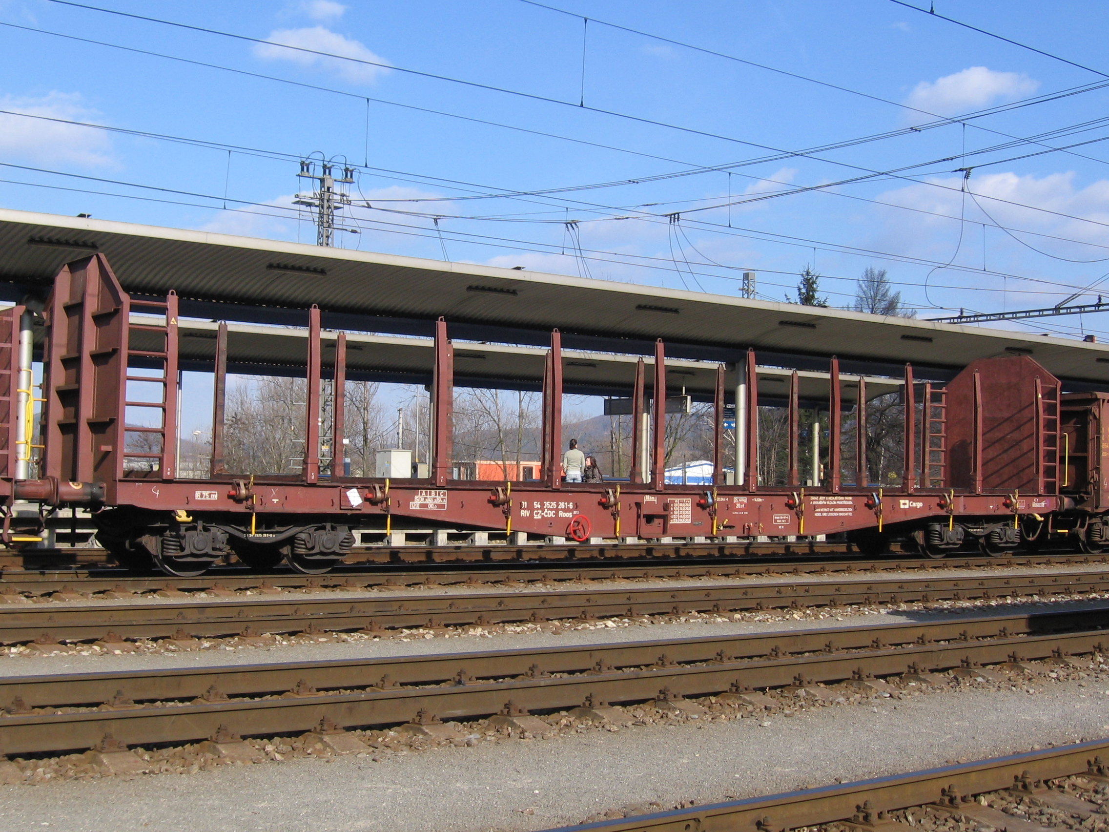 ČD Cargo Roos 31 54 352 5 261-6 in Zábřeh na Moravě